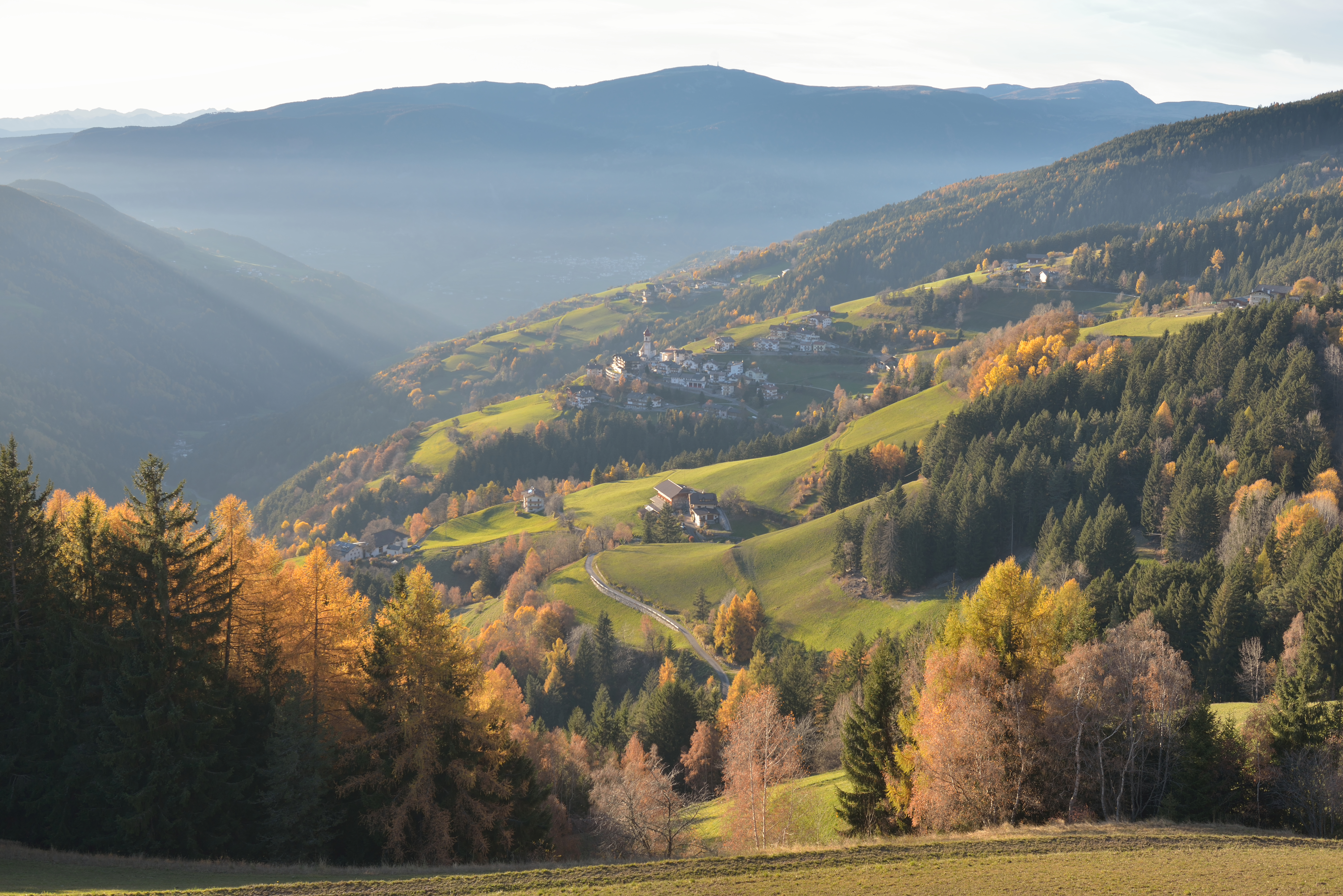 View over the lower Grödental with the St. Peter in Lajen hamlet